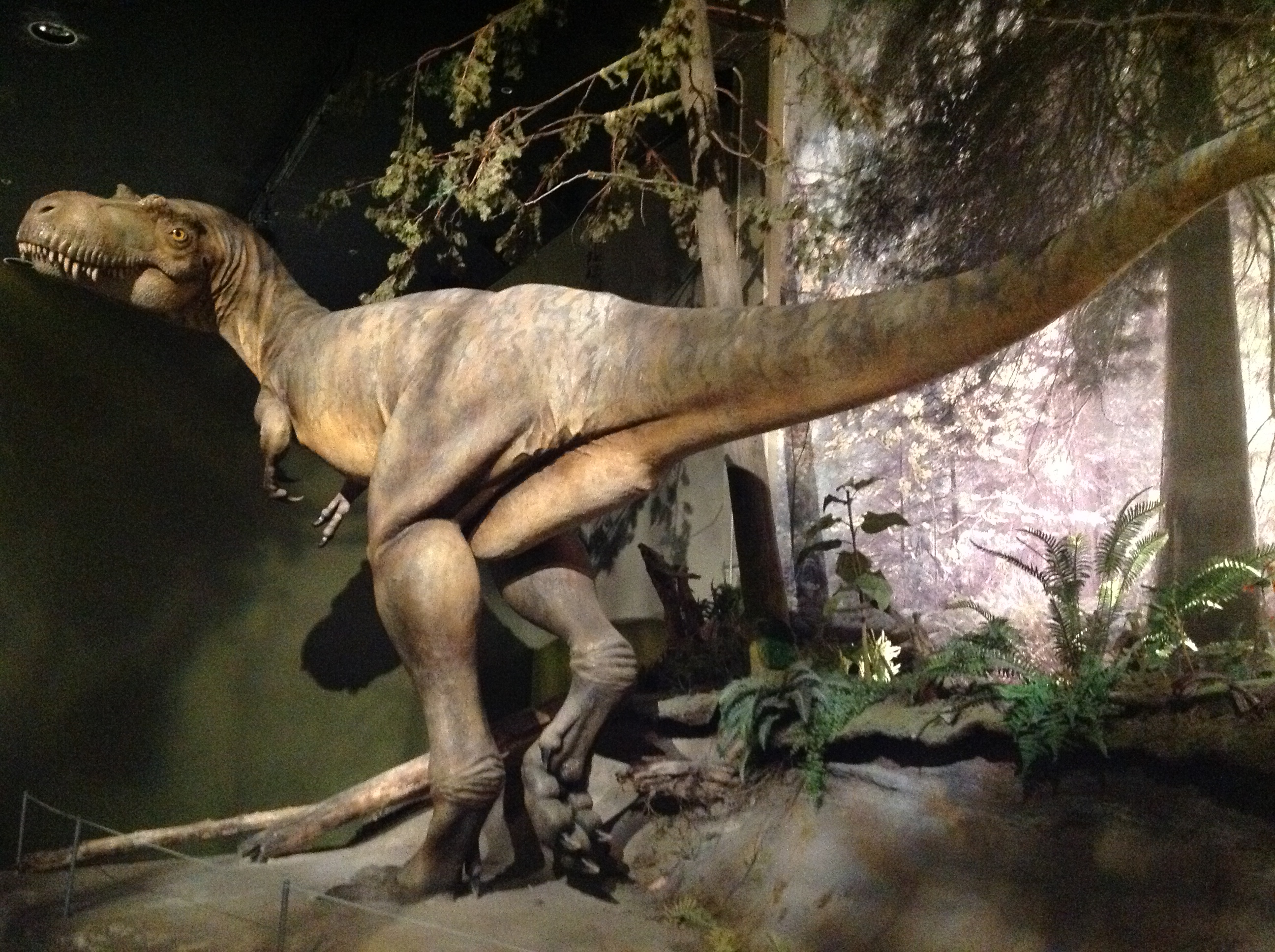 Albertosaurus sarcophagus - Royal Tyrrell Museum